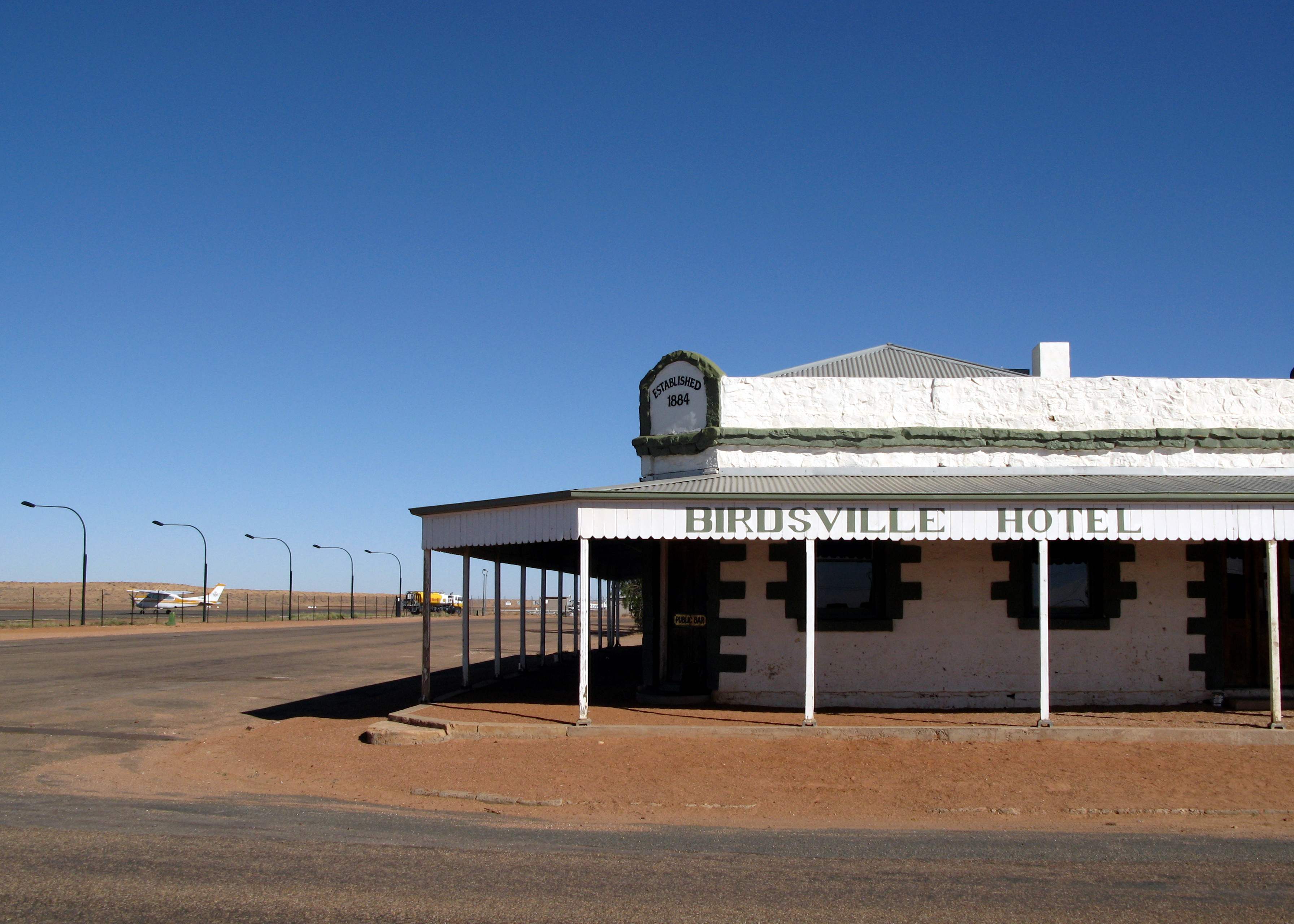 Birdsville Hotel on Christmas morning, Birdsville QLD